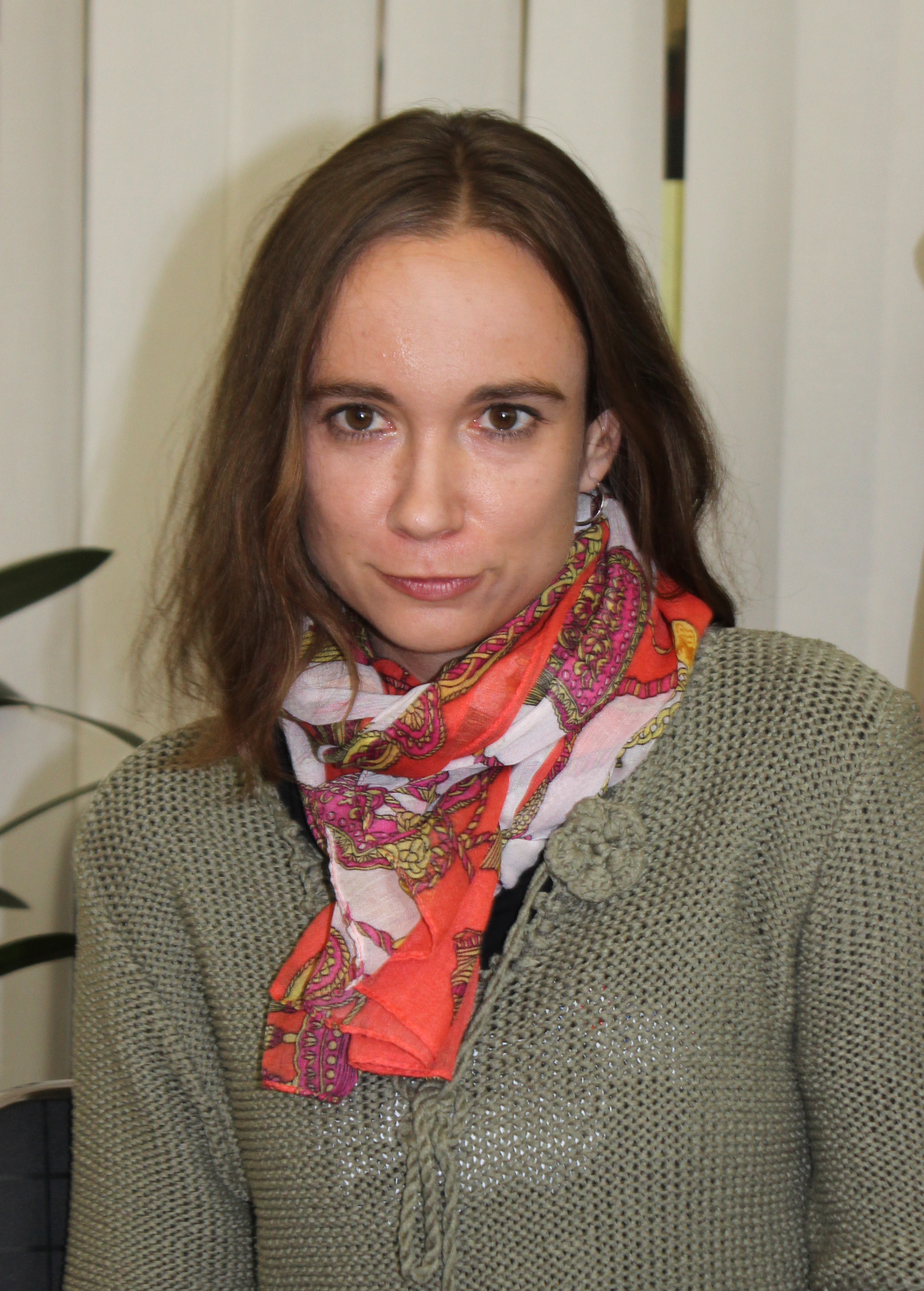 Czech writer Věra Rosí.